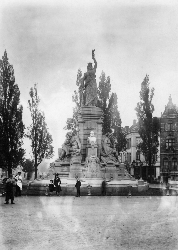 Monument for burgomaster Jean Loos (Antwerp, Belgium), pictured in 1901. Disassembled and destroyed in 1960, except for the bust.